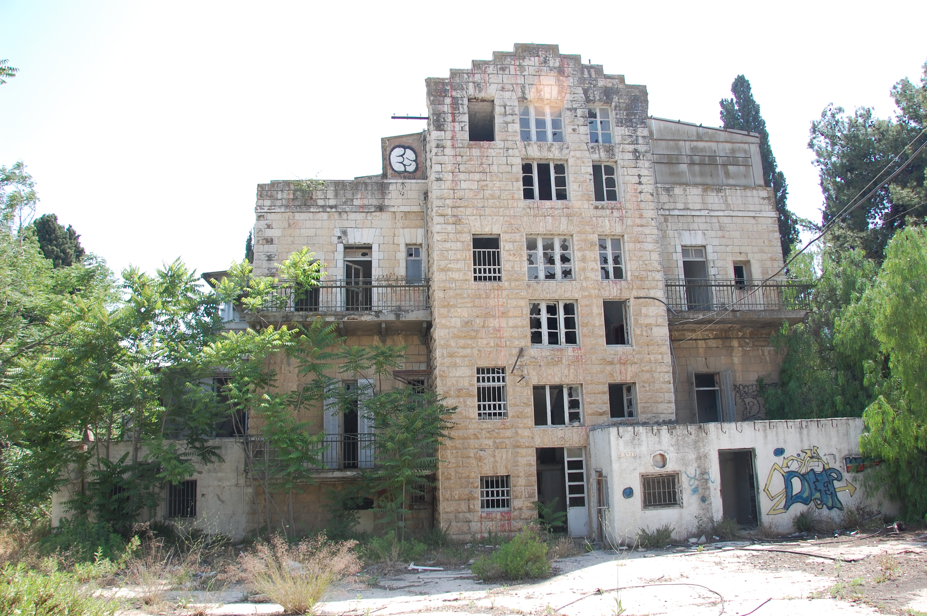 templer's high scool in jerusalem